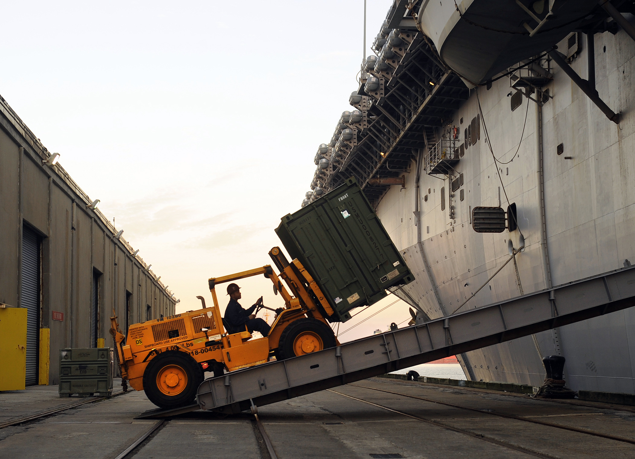 MOREHEAD CITY, N.C. (Jan. 15, 2010) A forklift driver loads relief supplies aboard the multi-purpose amphibious assault ship USS Bataan (LHD 5). The Bataan Amphibious Relief Mission is preparing to provide humanitarian assistance and disaster response to Haiti, which was devastated by a 7.0 magnitude earthquake on Jan. 12, 2010. (U.S. Navy photo by Mass Communication Specialist 2nd Class Kristopher Wilson/Released)